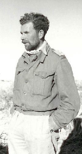 Captain (later Major) John Richard Easonsmith MC, DSO of the LRDG. . Category:LRDG Category:Groups of World War II Category:Special forces of New Zealand Category:Special forces units and formations Category:Military units and formations established in 1940 Long Range Desert Group Long Range Desert Group